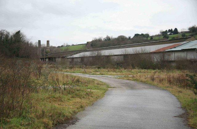 Former Clay Driers The view from the Camel trail shows the now disused clay driers which were once owned by English China Clays Lovering Pochin. The clay dries at Wenford were served by a pipeline delivering clay slurry from Stannon Moor over four miles distant. Traffic to the dries was coal (inward) and china clay; high quality bagged clay in vans and lower quality in sheeted open wooden wagons. After the closure of Wenfordbridge yard in 1971 the line ended just beyond the clay dries, 11 miles and 71 chains from Wadebridge. This was the furthest part of the former Southern railway far away from Waterloo. The line closed completely on 3 October 1983 the last clay train departing before this. At one time the operation was daily Monday to Friday worked by a St Blazey train crew and class 08 shunter in the 70s and 80s.In latter years the service was more irregular, worked only as required. After the railway shut in 1983 clay was moved away by road transport and this continued until the claypit itself was shut down which then made the driers themselves redundant. What for the future ?